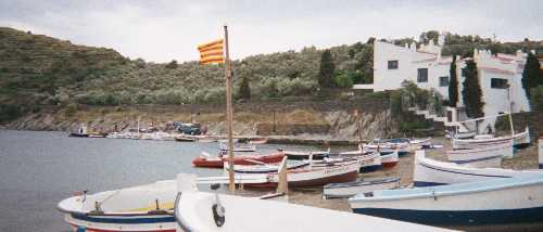 The bay of Portlligat in Cadaqués (Catalonia, Spain) with the Casa-museu Salvador Dalí (Salvador Dalí’s former house now a museum) in the background.